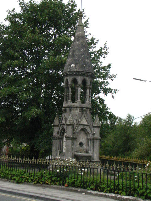 Monument dedicated to the second Viscount de Vesci.